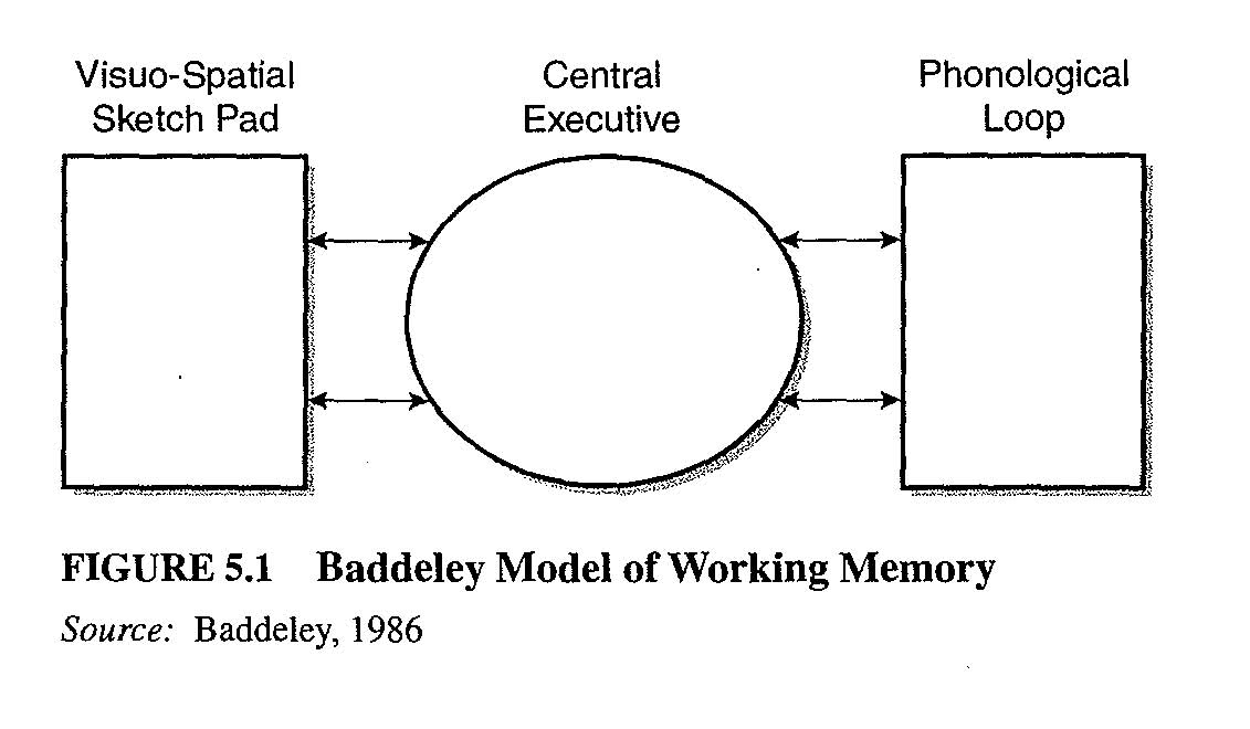 Baddeley Working Memory Diagram